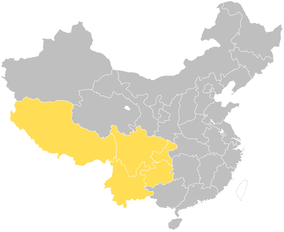 Xinan (southwestern provinces of China)